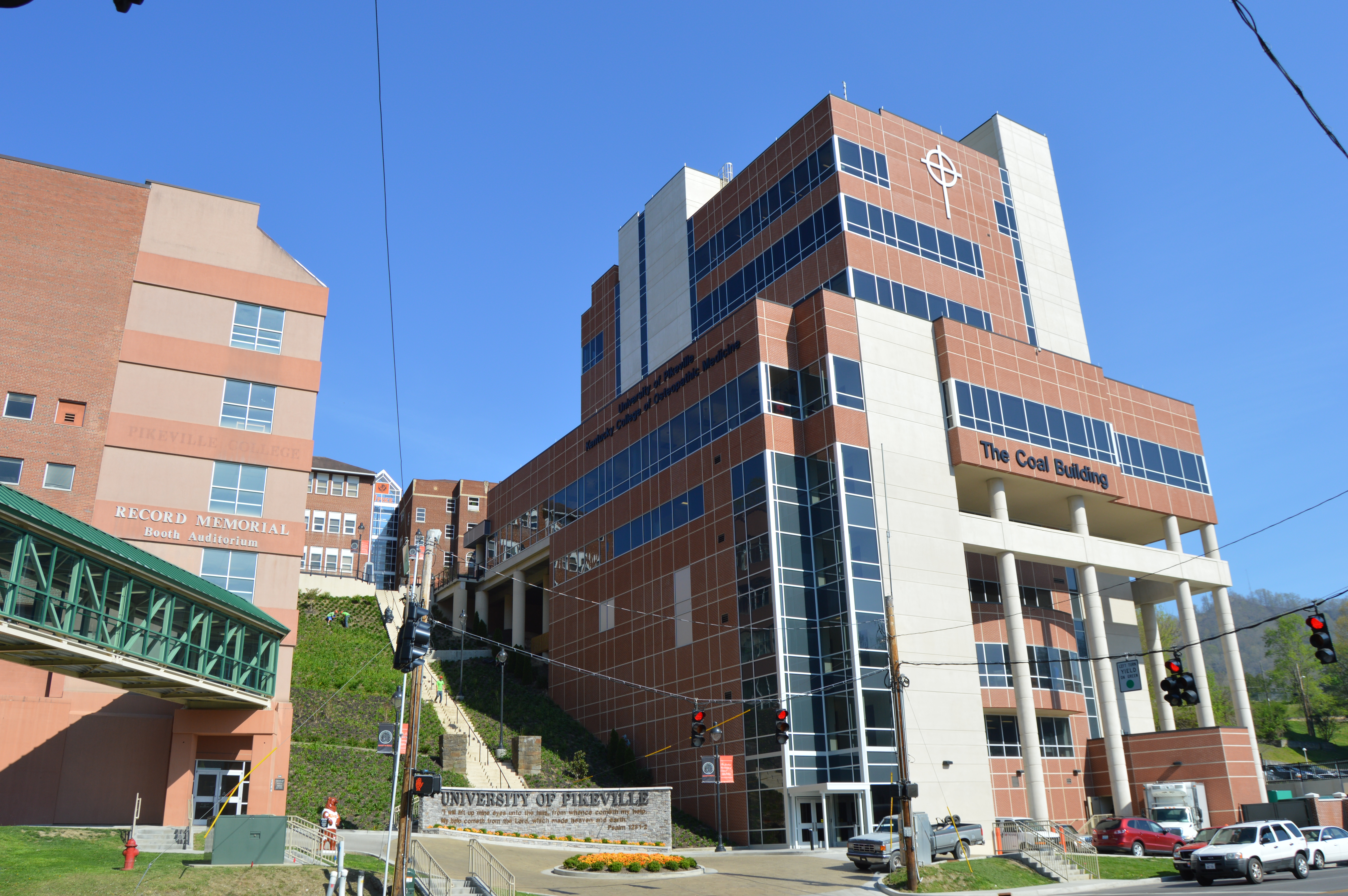 Pedestrian entrance to the University of Pikeville, located on Hambley Boulevard at the Huffman Avenue intersection in Pikeville, Kentucky, United States.